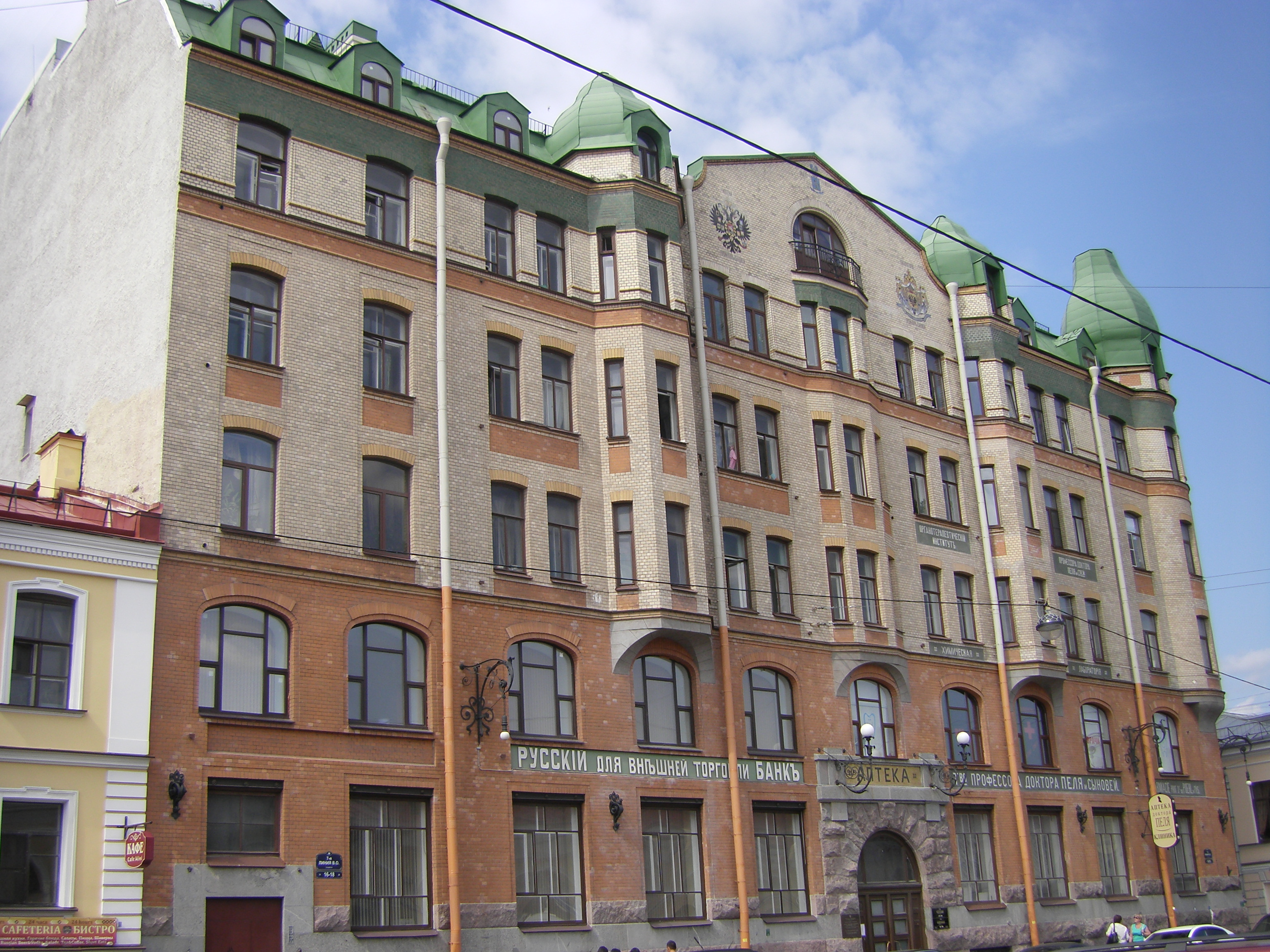 Poehl & sons pharmacy house in Saint Petersburg